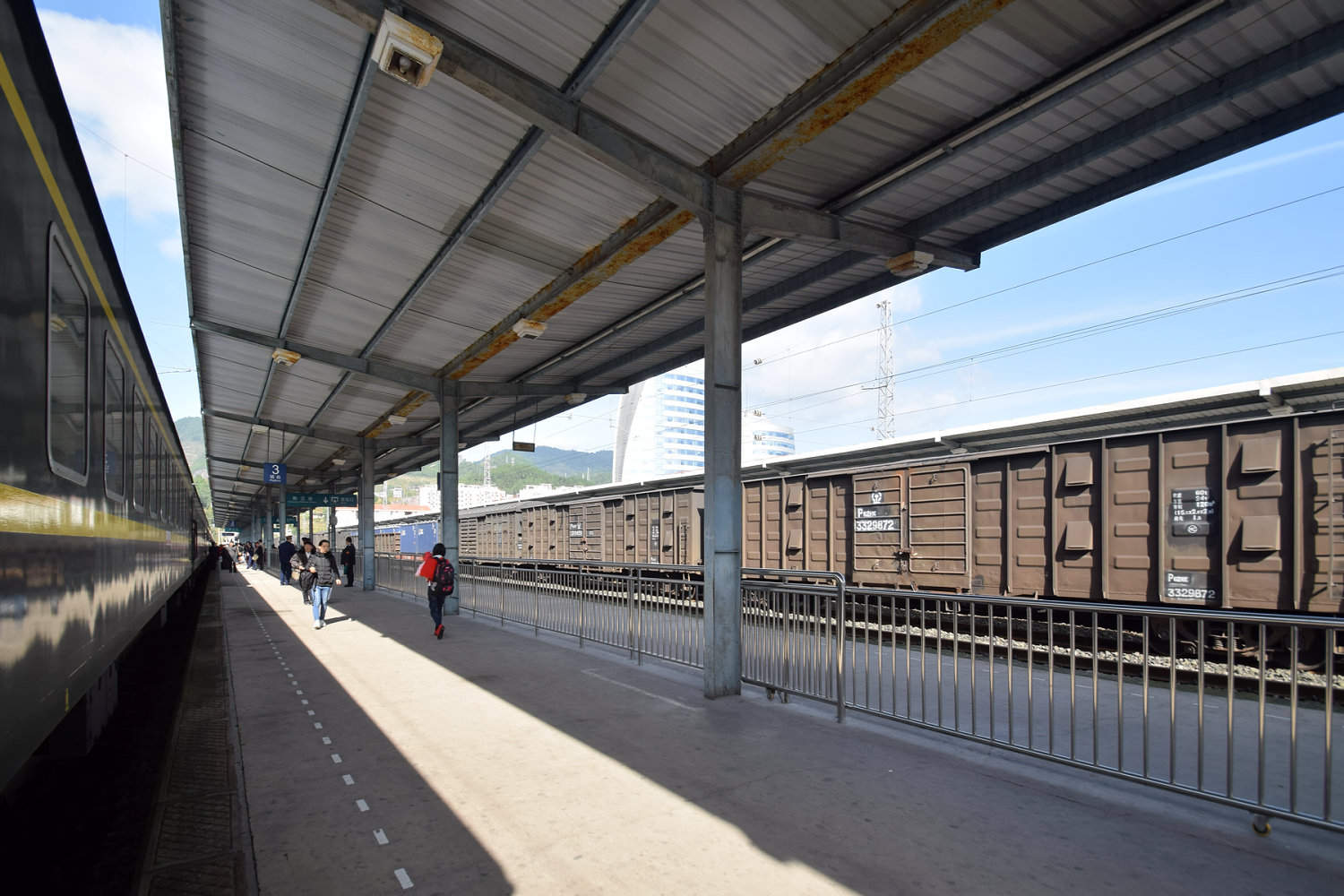 Platform 2-3 of Qianjiang Railway Station, view towards Hetaoyuan Railway Station.